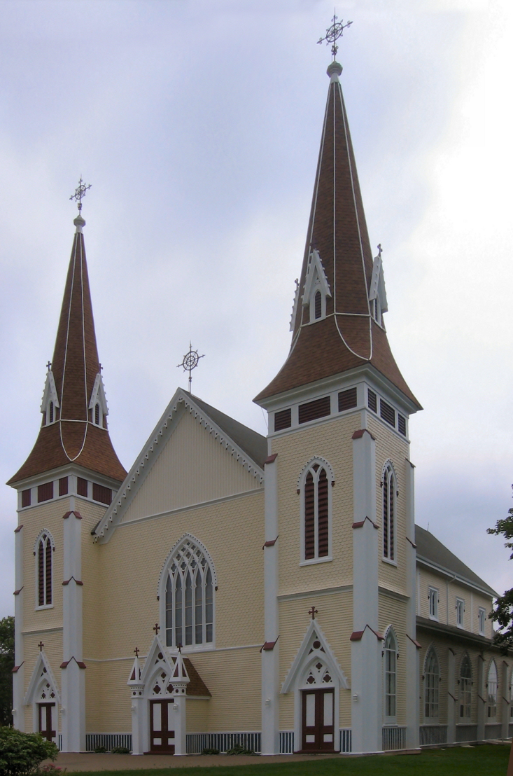 St. John the Baptist Church, Miscouche, PEI, Canada. Photographed July 12, 2006 by myself.